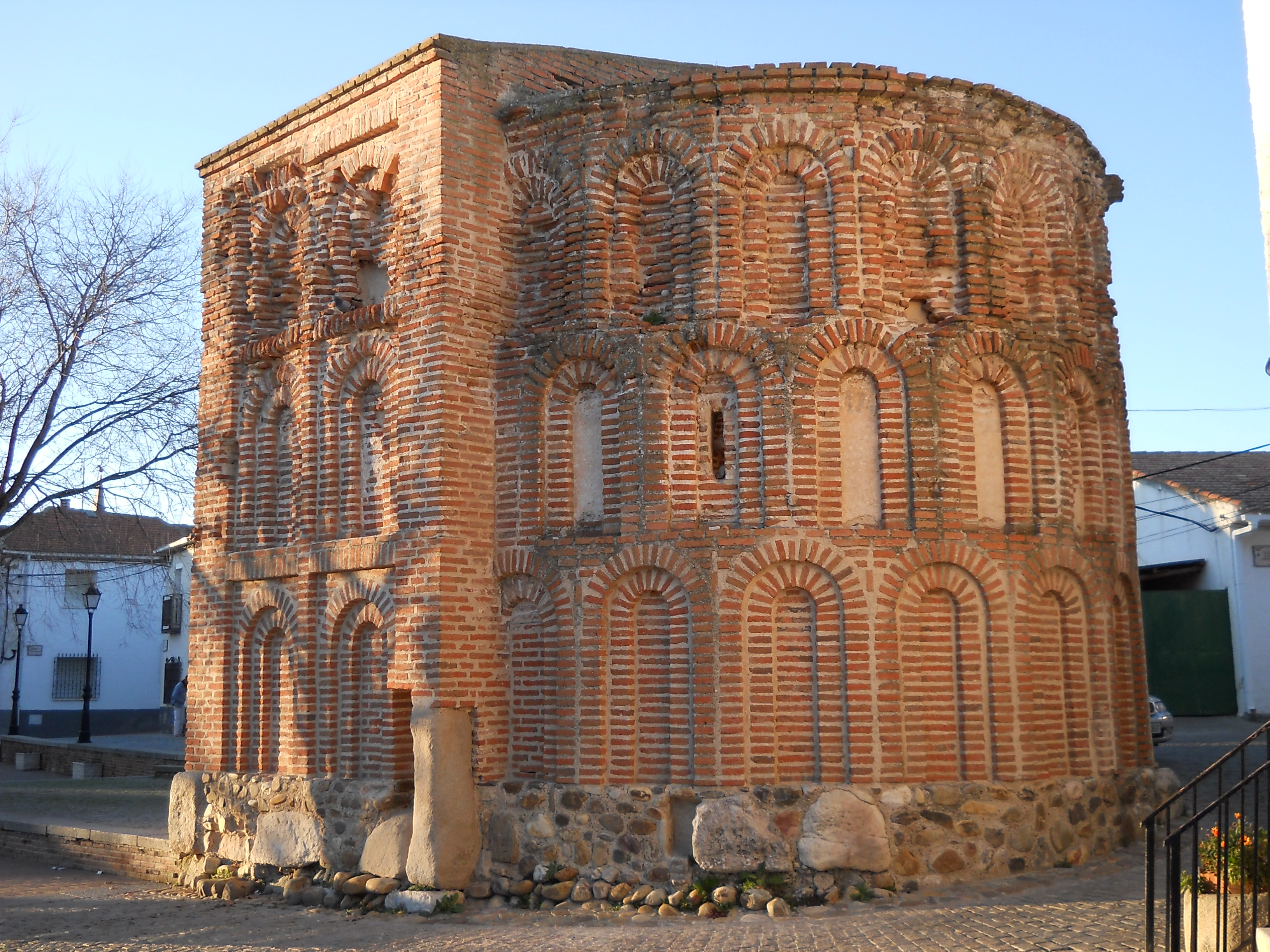 Apse of the Miracles, Talamanca de Jarama, Madrid, Spain